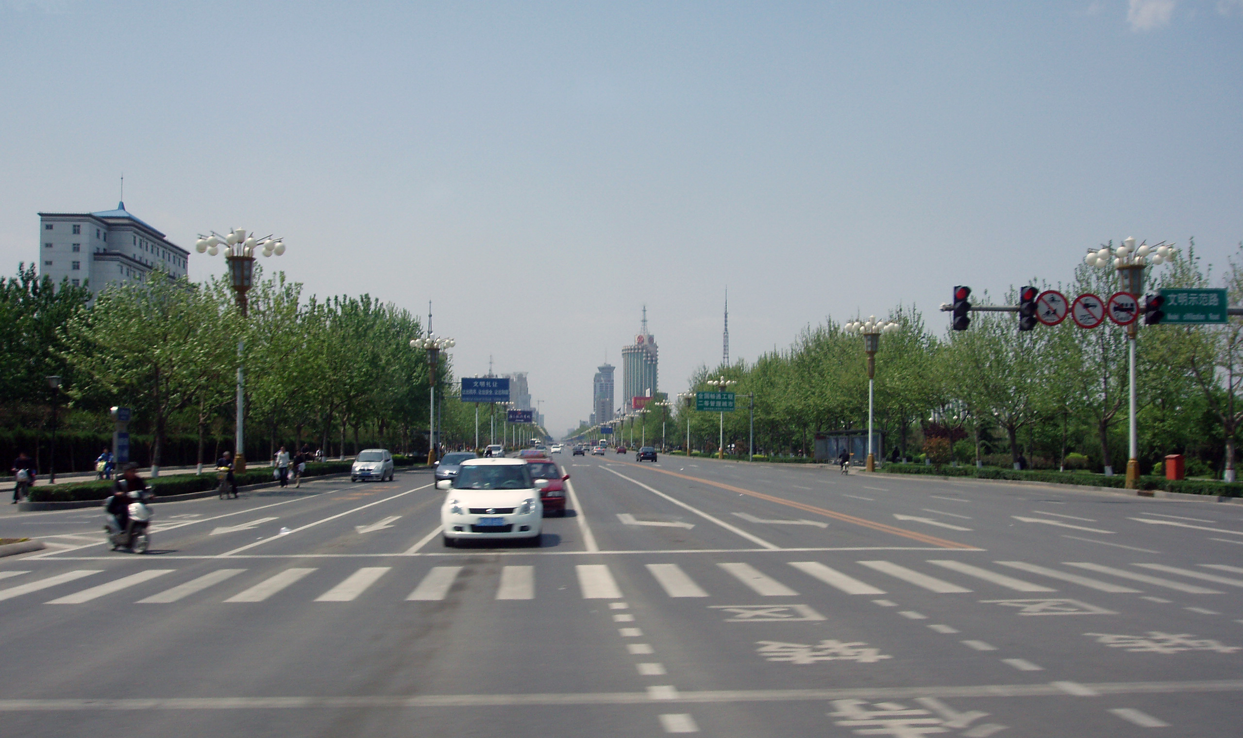 Handan City, Hebei, China